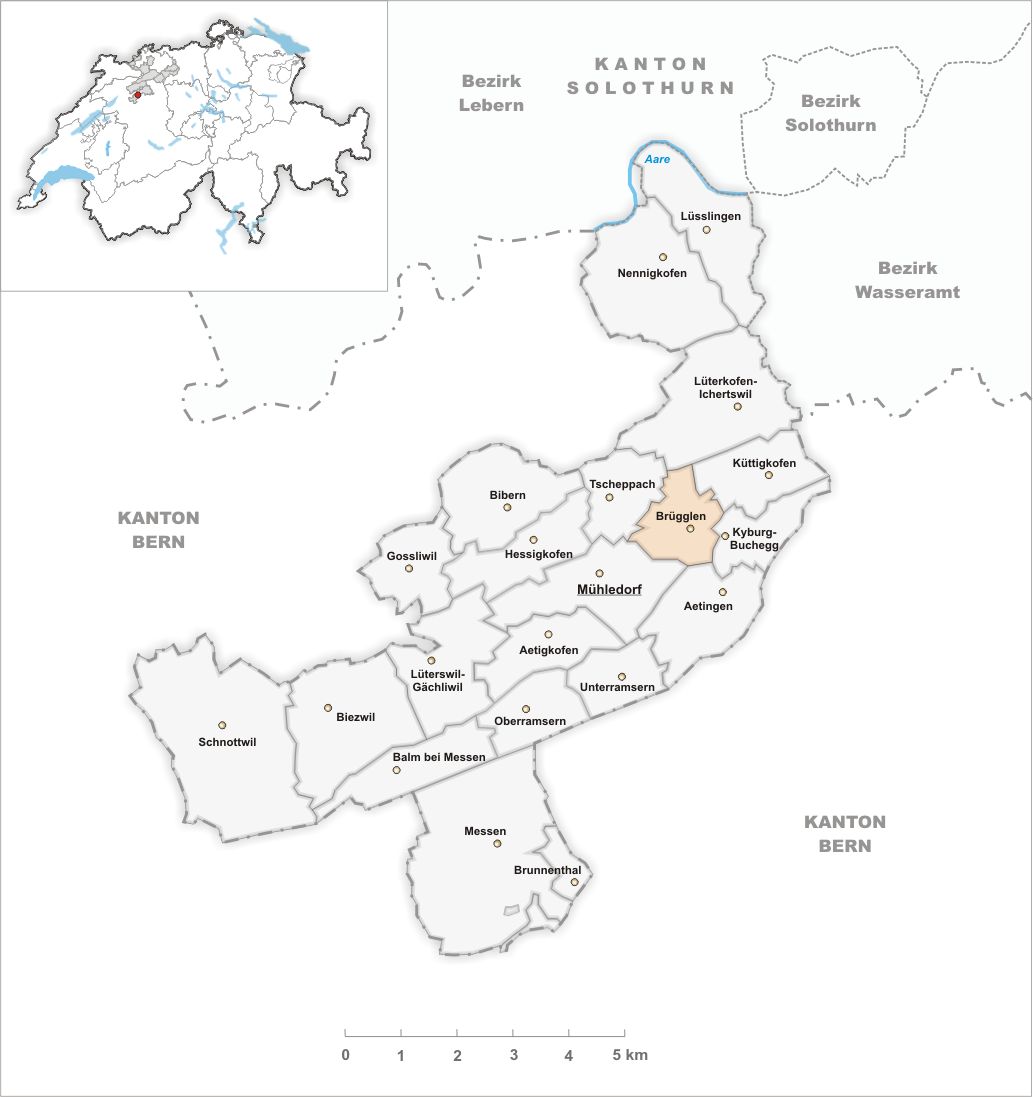 Municipality Brügglen